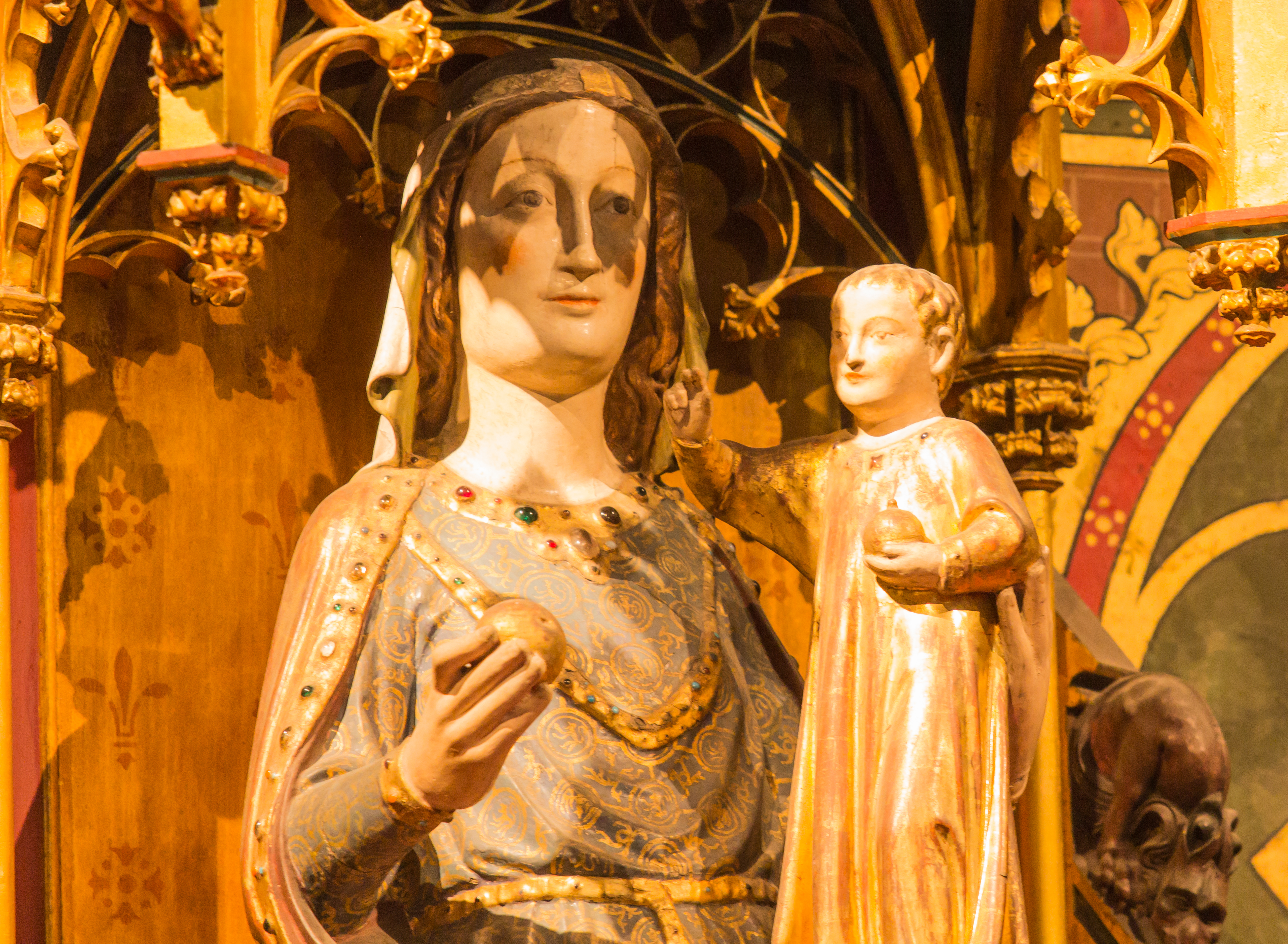 Statue of the Madonna with Child, named "Füssenicher Madonna", after the place of origin, a village west of Cologne; since end of 19. century located in the Axis Chapel (Chapel of the Three Kings) of the Cologne Cathedral